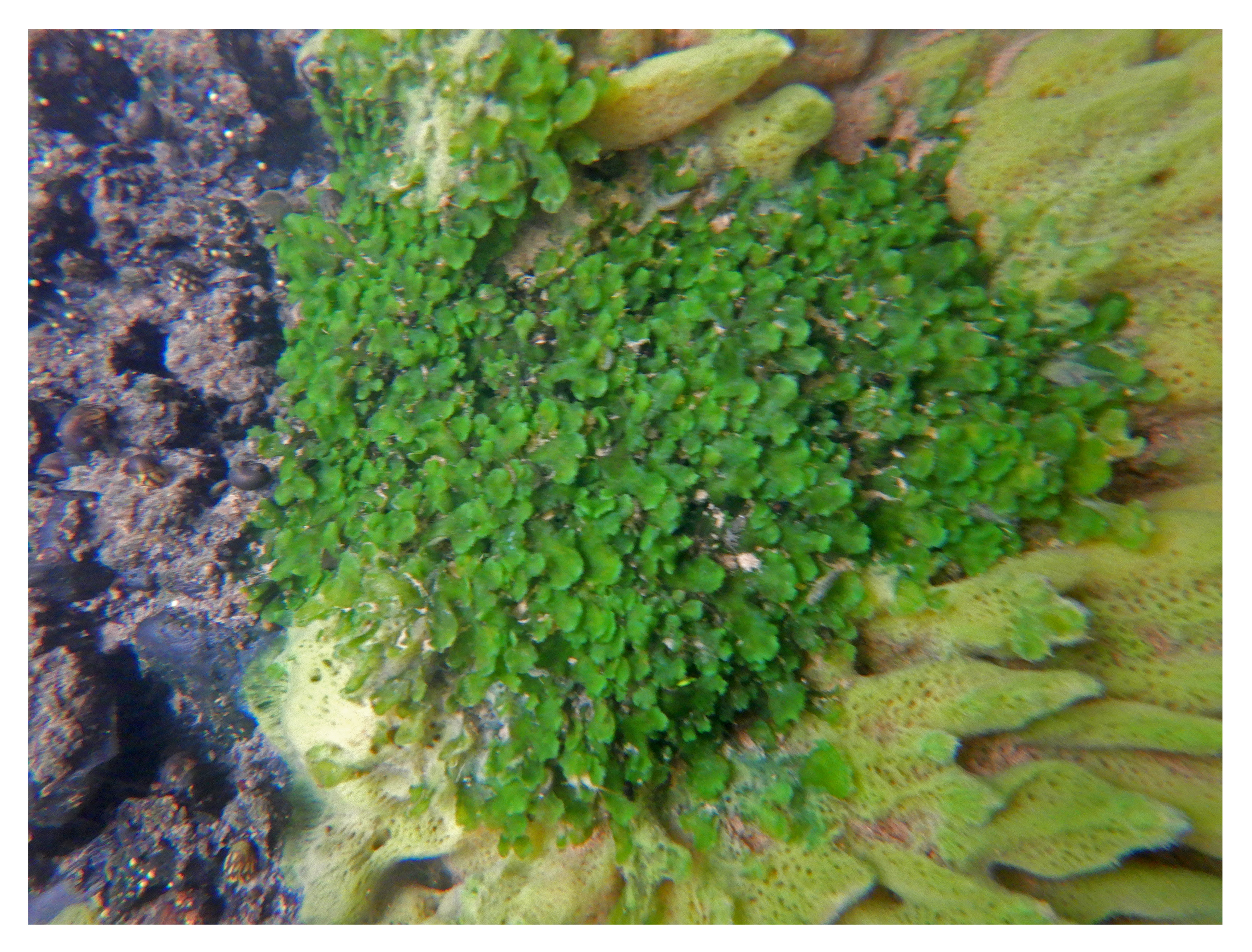 Fresh water Sponge in Authie river (in the Region Hauts-de-France, Northern France). Note: Despite several rainy periods in the hours and days before this photo the water remained clear, the sponges help to filter the water, but not in winter for some species like spongilla lacustris.